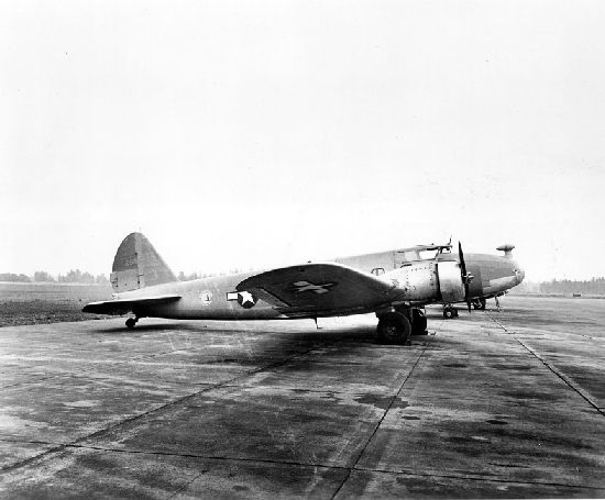 Boeing C-73 (Model 247).